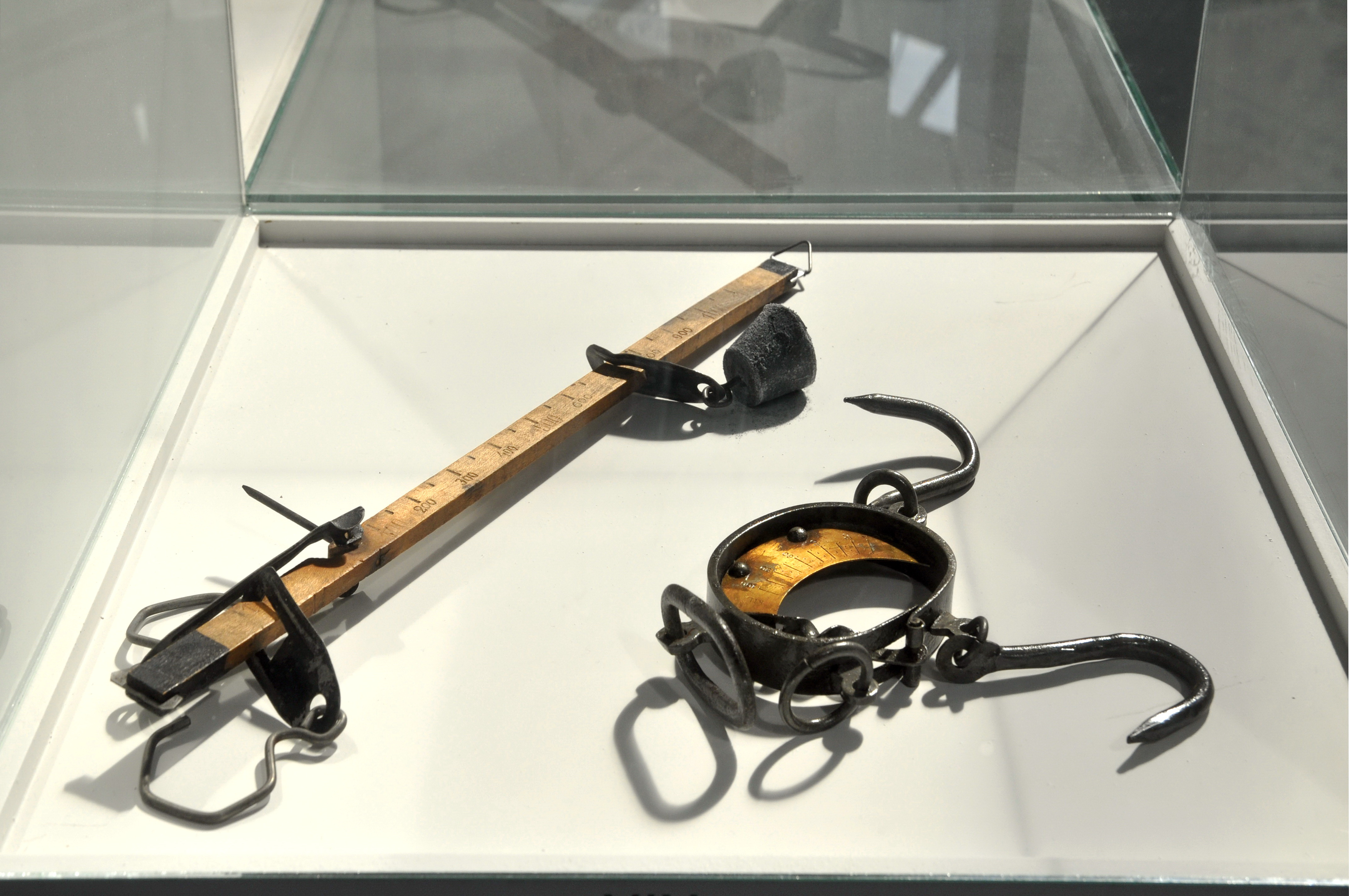 Weighing scales. Now they are located in Museum of Science and Technology in Belgrade.